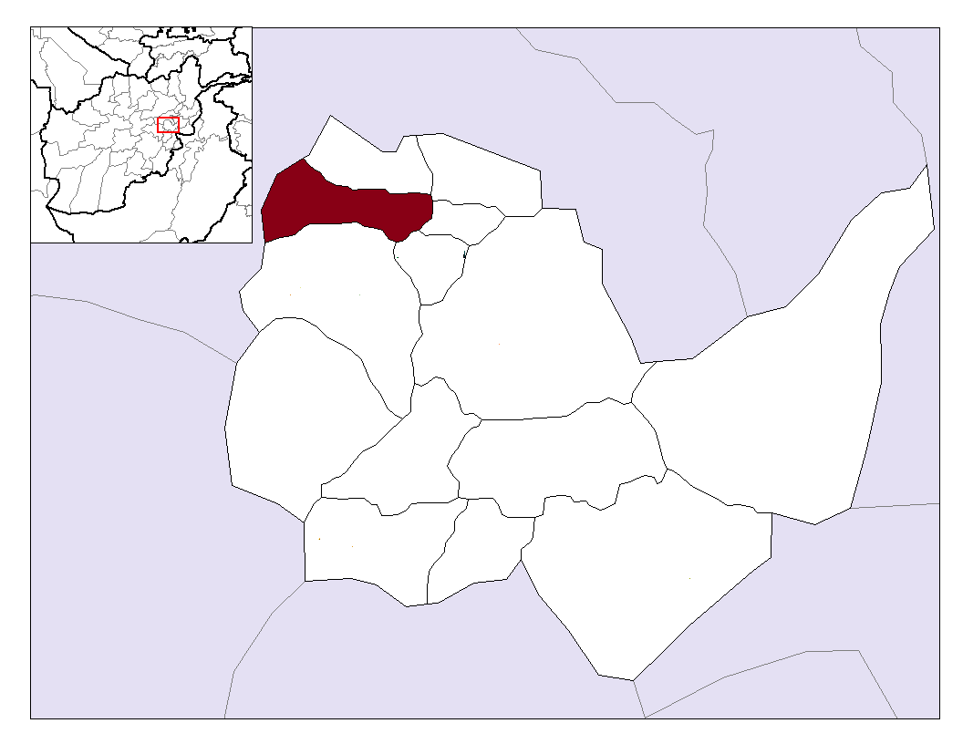 District locator in Kabul Province